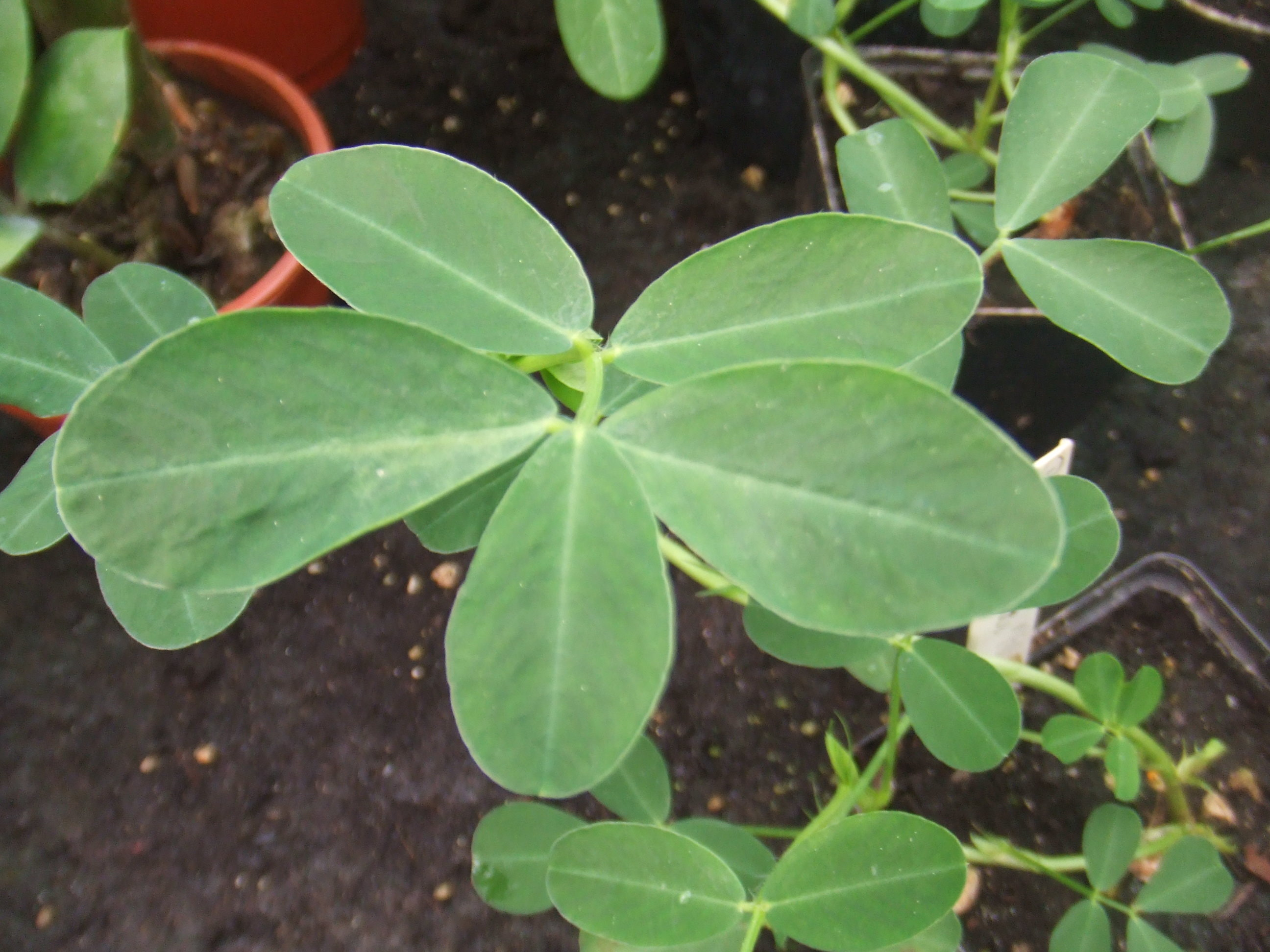 Arachis hypogaea, picture taken at the Botanische tuin TU Delft in Delft, The Netherlands